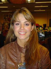 Canadian actress Erica Durance at the Adventure Con 5 in Knoxville, Tennessee.